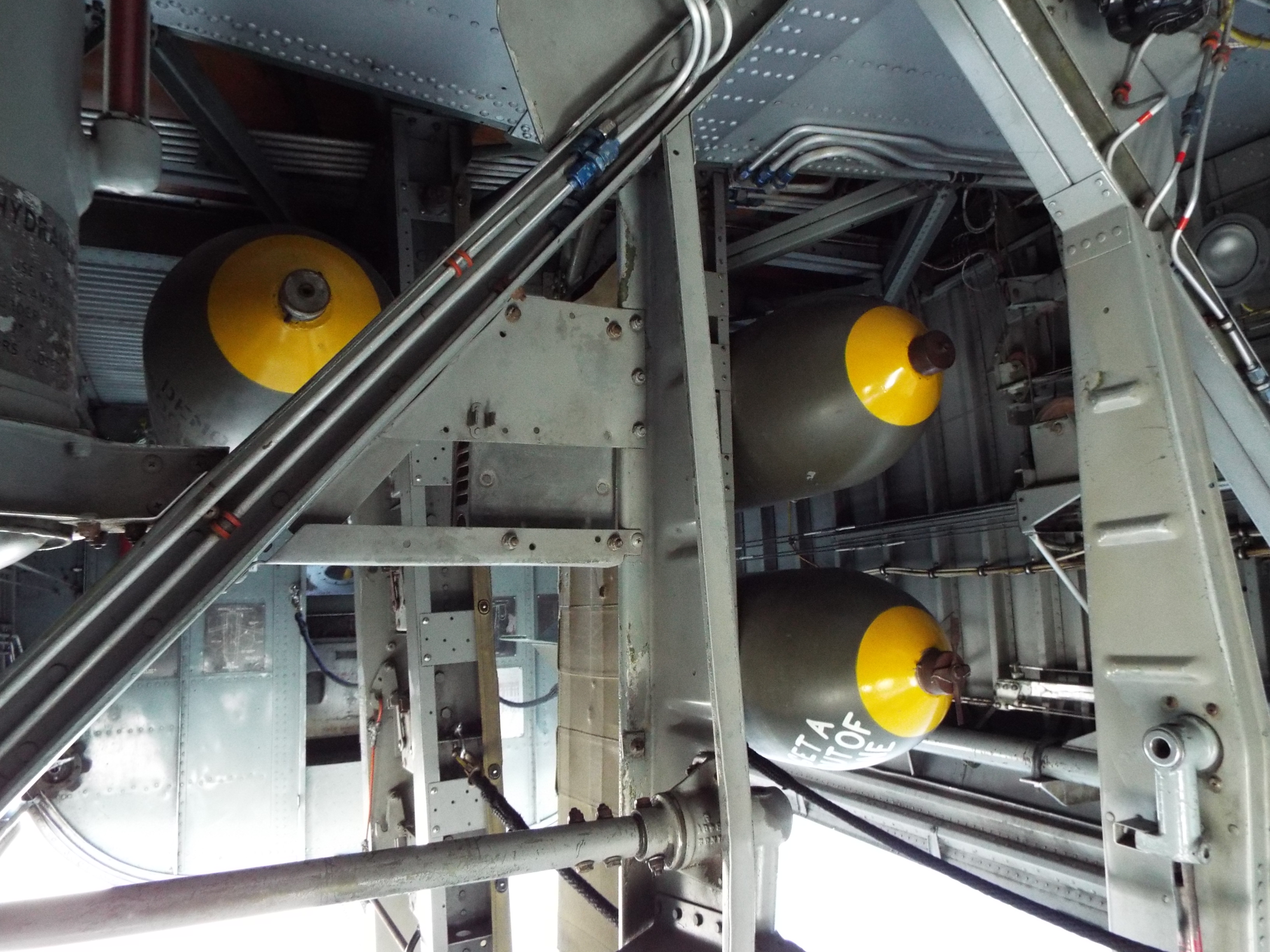 The bomb bay of the World War II aircraft B-24J Liberator baptized as the "Witchcraft".